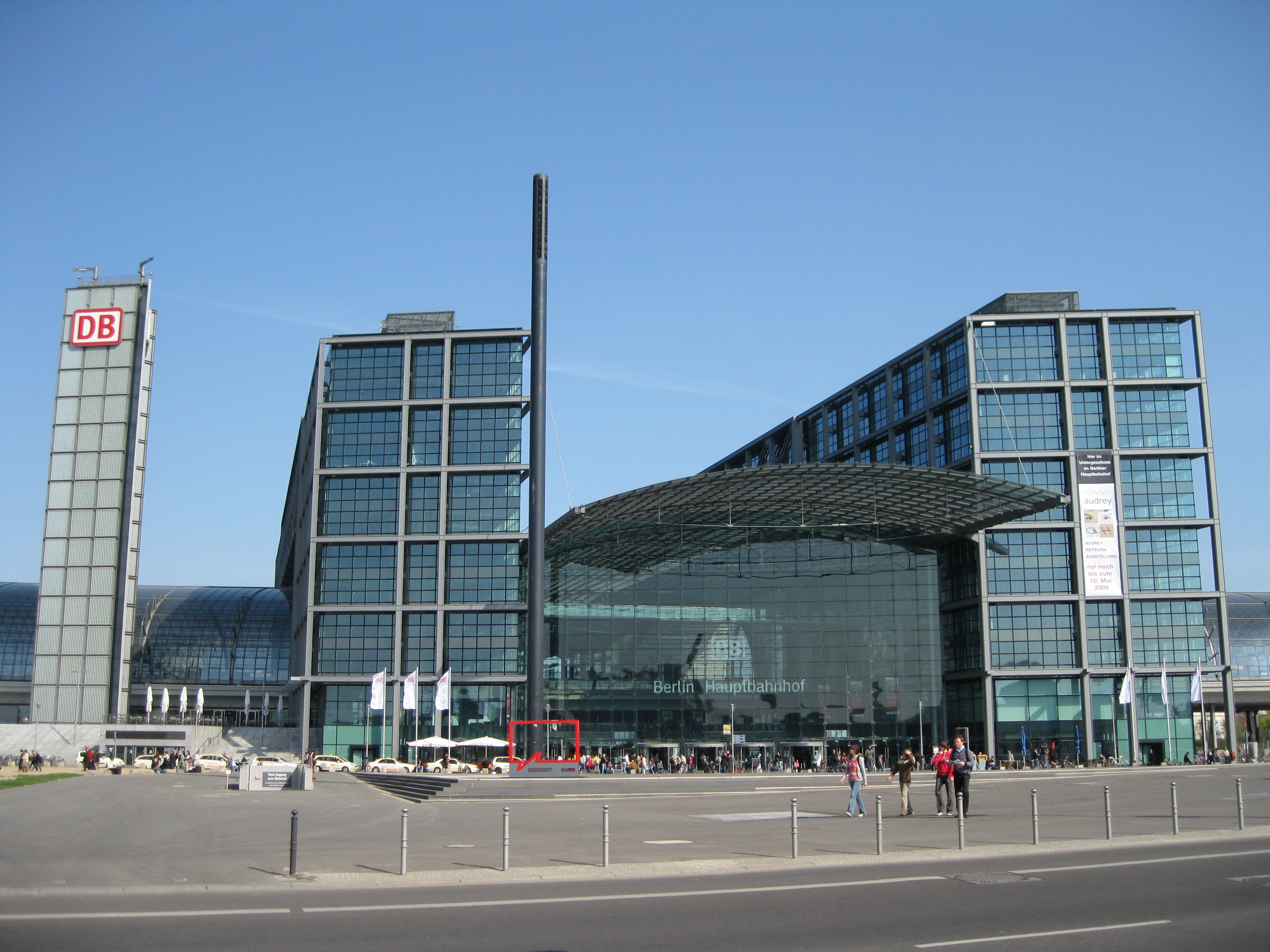 Berlin Hauptbahnhof (main train station)